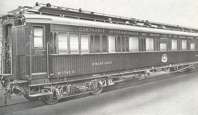 Railway coach of the International Cleeping-car Company; made by Rába, Győr, Hungary